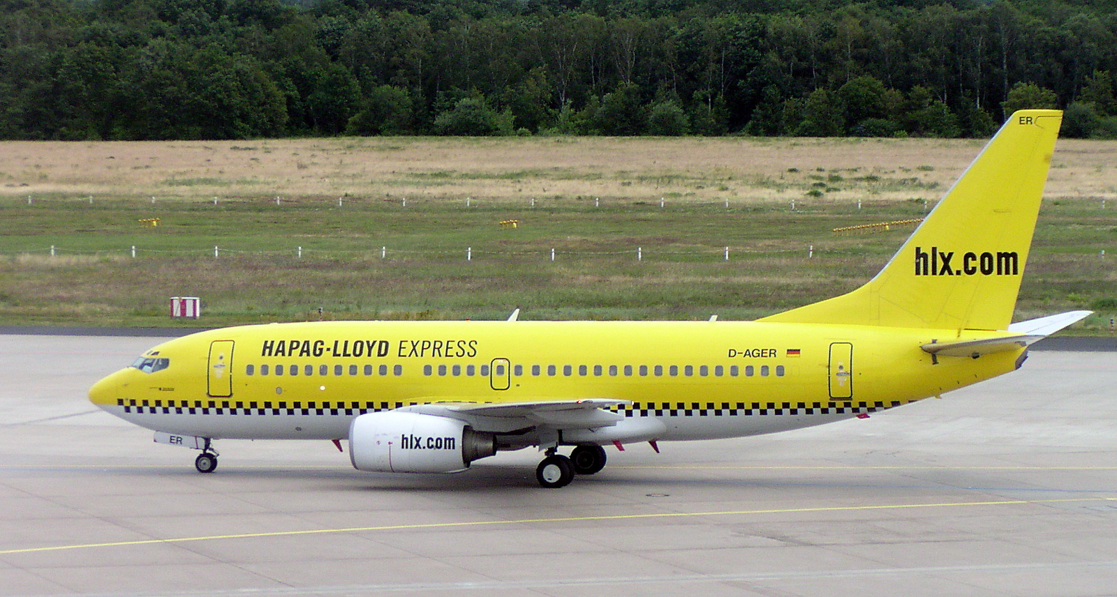 A Hapag-Lloyd Express Boeing 737-700 (D-AGER) at Cologne Airport, 4 July 2004.